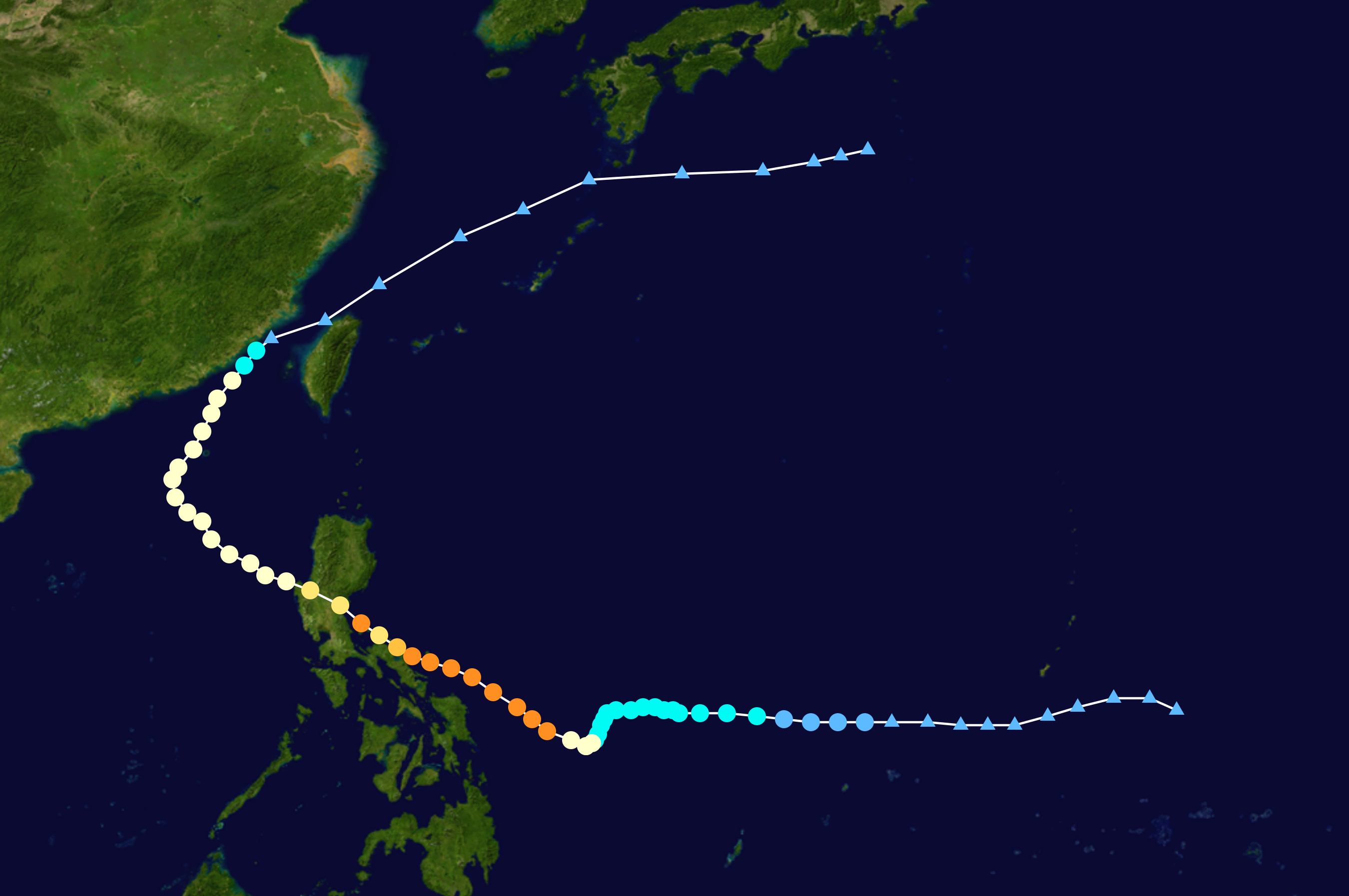 Track map of Typhoon Babs of the 1998 Pacific typhoon season. The points show the location of the storm at 6-hour intervals. The colour represents the storm's maximum sustained wind speeds as classified in the Saffir–Simpson scale (see below), and the shape of the data points represent the nature of the storm, according to the legend below. Saffir–Simpson scale Tropical depression≤38 mph≤62 km/h Category 3111–129 mph178–208 km/h Tropical storm39–73 mph63–118 km/h Category 4130–156 mph209–251 km/h Category 174–95 mph119–153 km/h Category 5≥157 mph≥252 km/h Category 296–110 mph154–177 km/h Unknown Storm type Tropical cyclone Subtropical cyclone Extratropical cyclone / Remnant low / Tropical disturbance / Monsoon depression